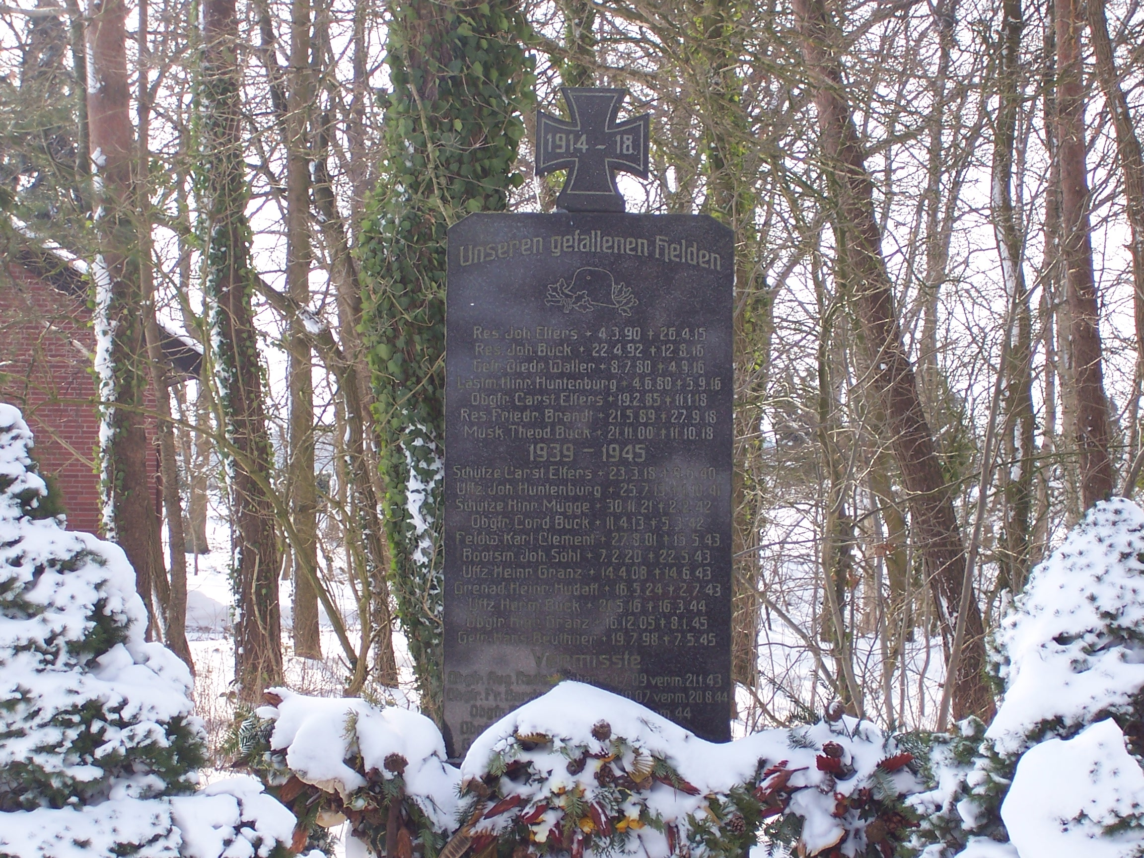 War memorial in Brobergen, Germany.